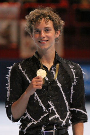 Adam Rippon(USA) at the 2009 Trophee Eric Bompard medal ceremony.